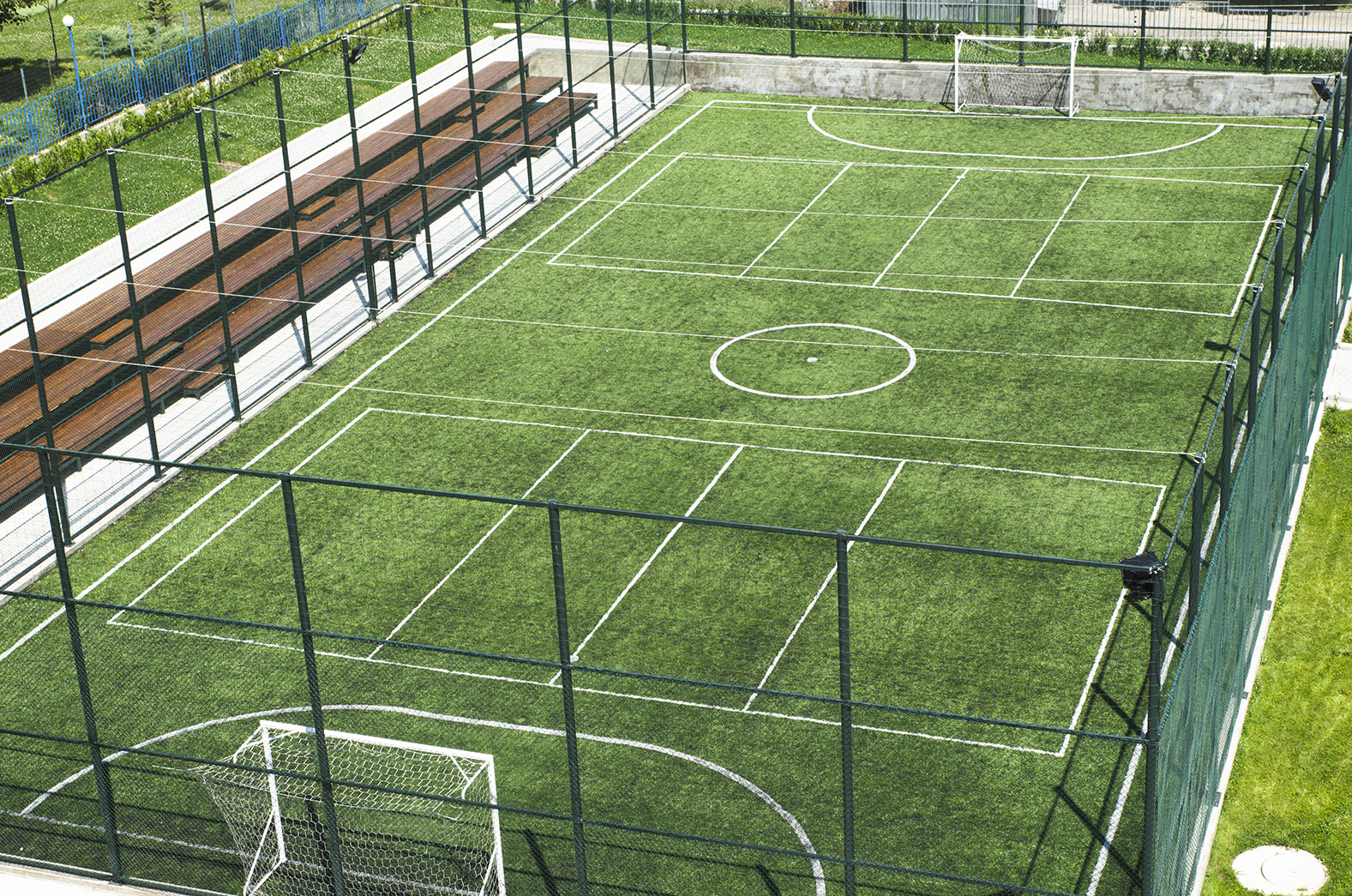 A Playground of the New Bulgarian University